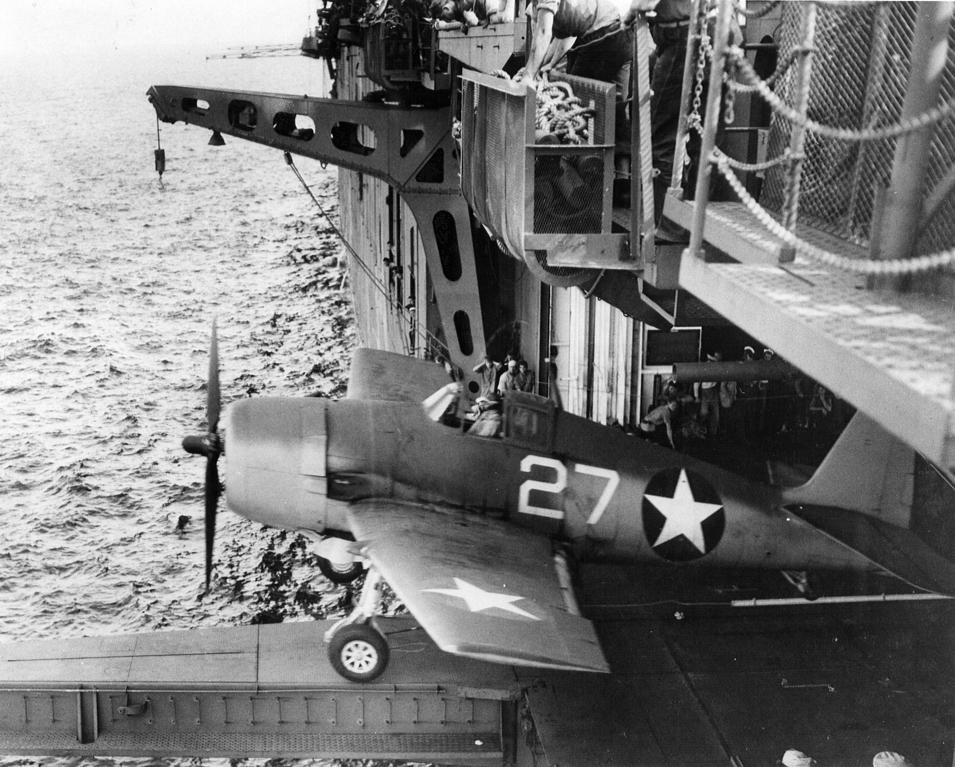 A U.S. Navy Grumman F6F-3 Hellcat of fighting squadron VF-1 launches from the hangar deck catapult on board the aircraft carrier USS Yorktown (CV-10) during her shakedown cruise in the waters off Trinidad, 3 June 1943.